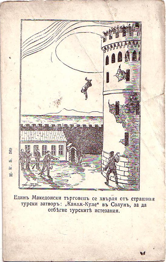 Macedonian trader jump off White Tower Prison in Thesaloniki